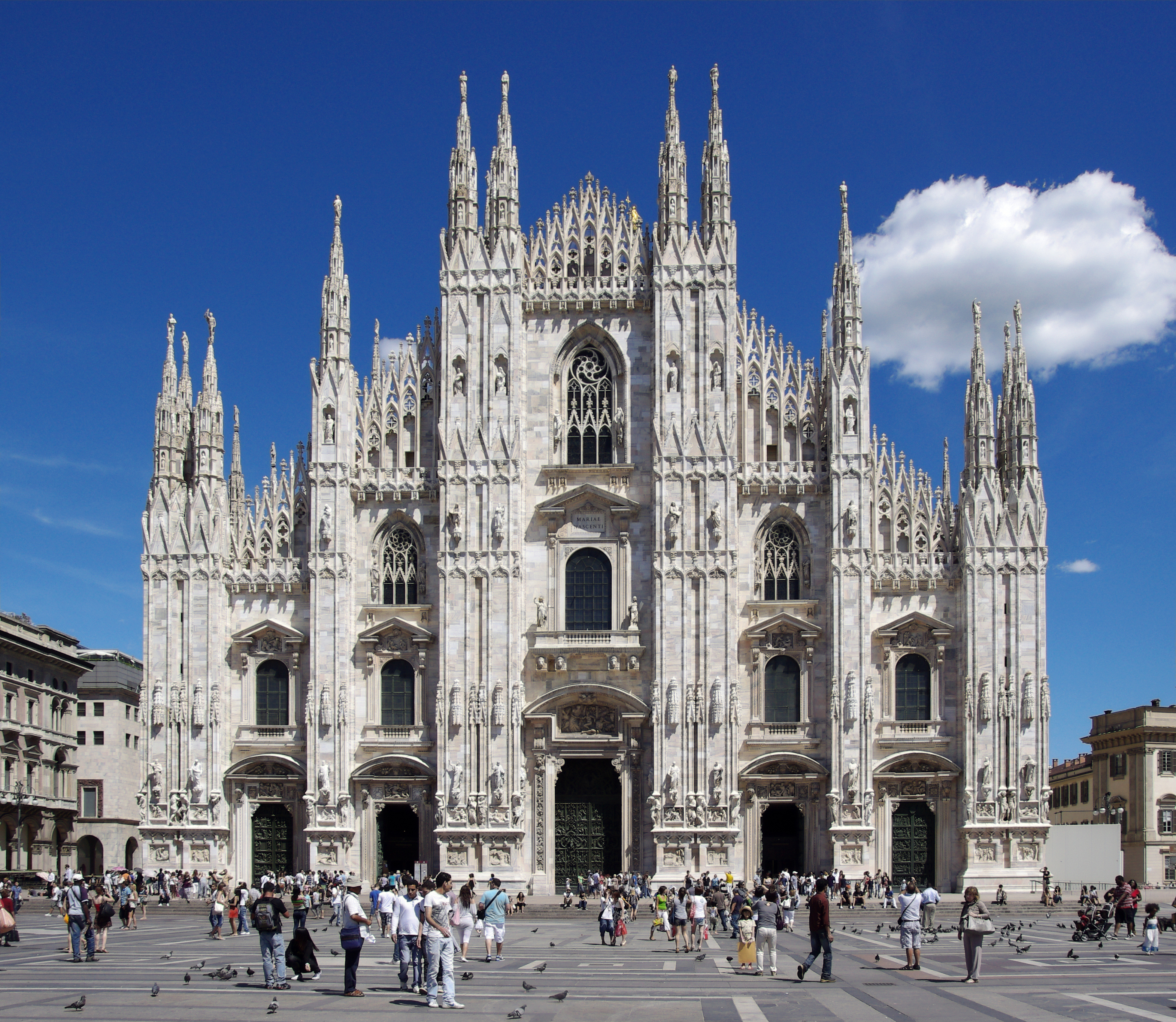 Facade of the Milan Cathedral, Milano, Italy